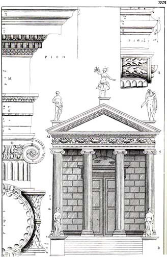 Engraving of the Temple of Portunus in Rome (here indicated as "tempio della Fortuna Virile"), Isaac Ware, 1738 (Isaac Ware's edition of I quattro libri dell'architettura by Palladio.